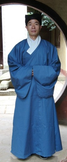 Zhiduo (直裰) - Men's Chinese traditional clothing (hanfu)